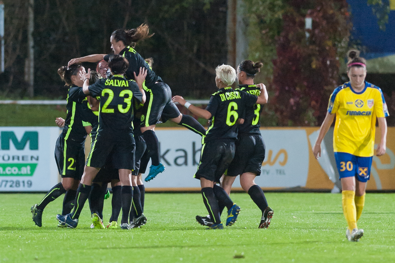 UEFA Women's Champions League FSK St. Pölten-Spratzern vs ASF CF Verona, St. Pölten, 2015-10-07